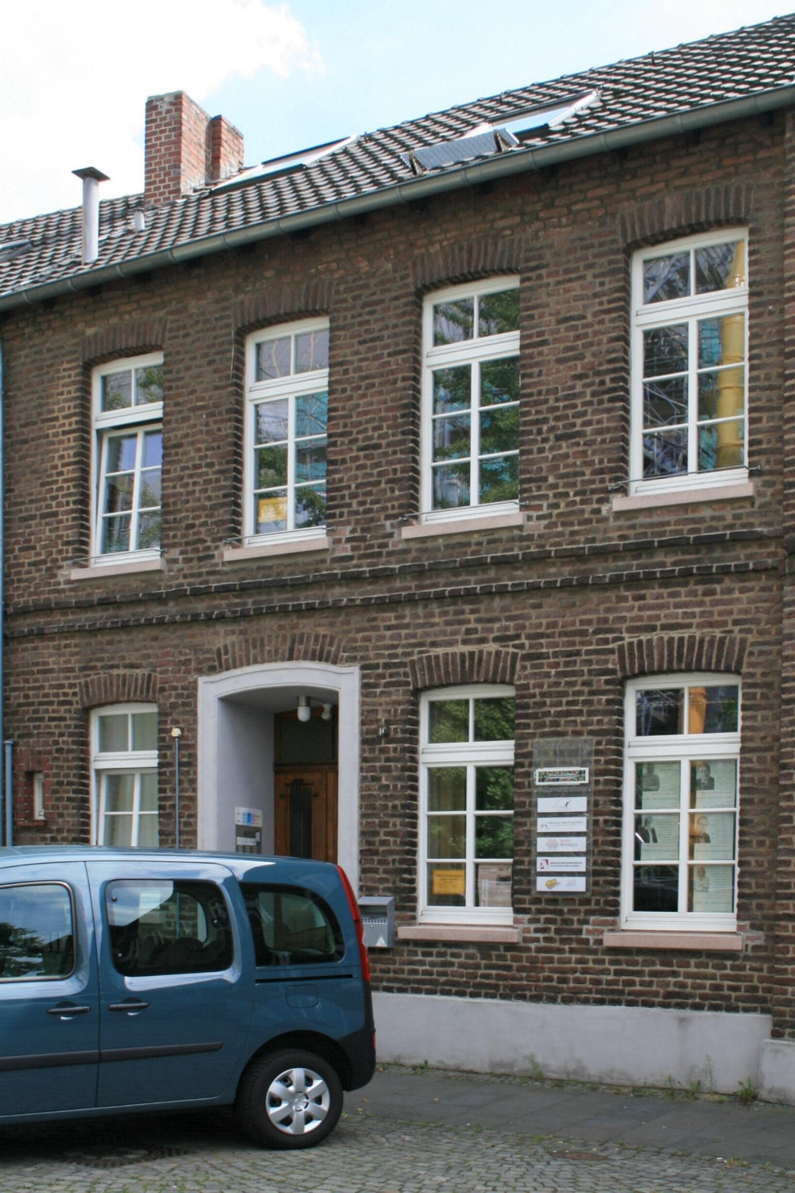 Cultural heritage monument No. K 091 in Mönchengladbach